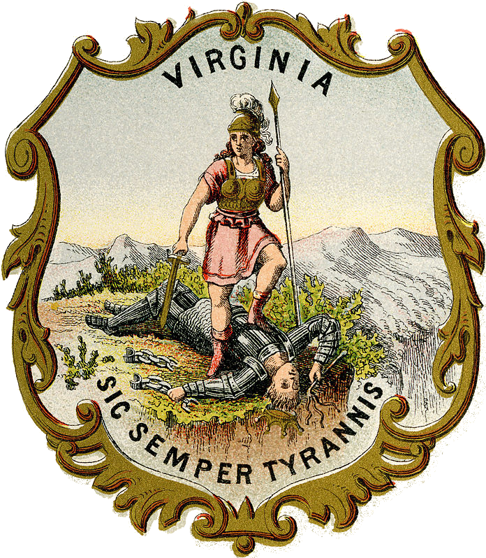 Coat of arms of Virginia (1876)